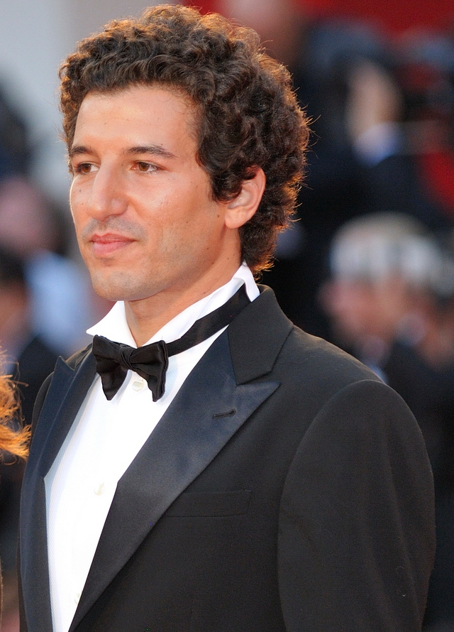 Francesco Scianna and Margareth Madè at the 2009 Venice Film Festival